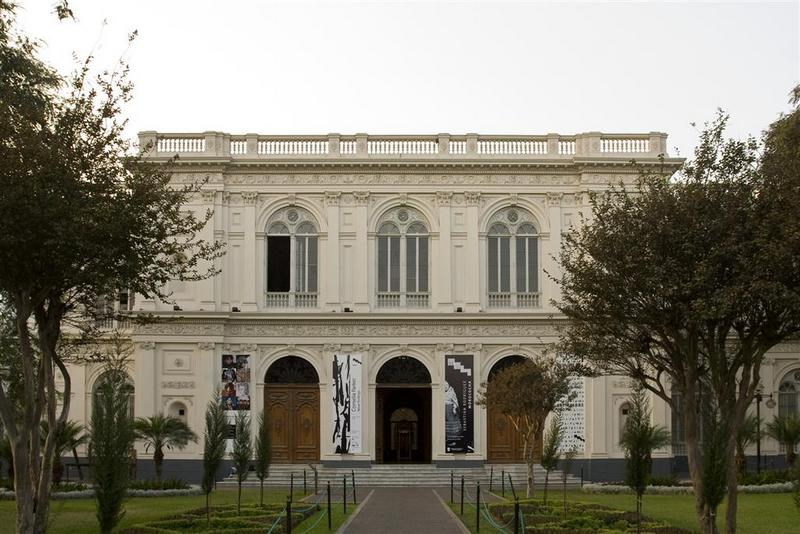 Museo de Arte de Lima (MALI)